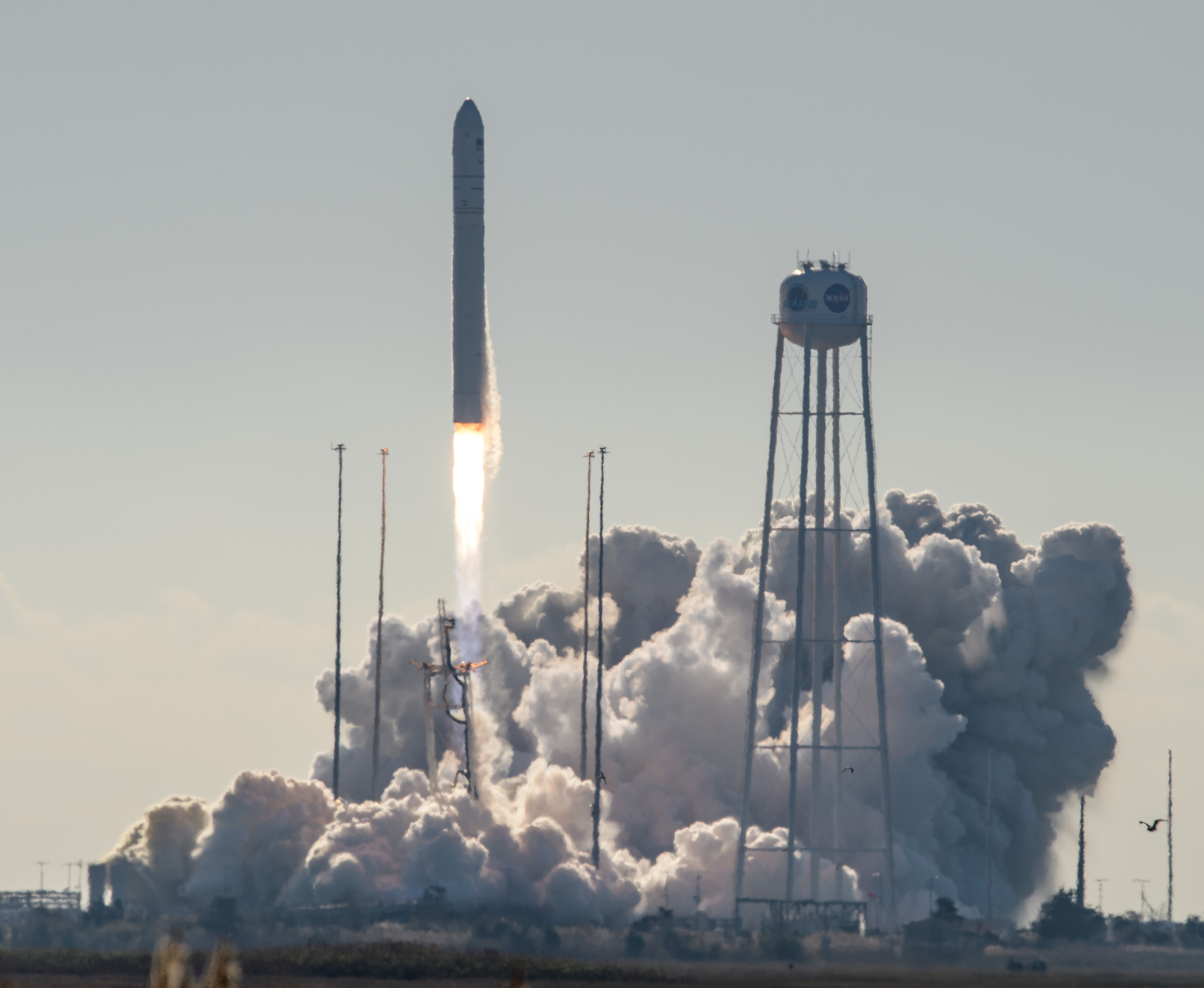 The Northrop Grumman Antares rocket, with Cygnus resupply spacecraft onboard, launches from Pad-0A of NASA's Wallops Flight Facility, Saturday, November 2, 2019, in Virginia. Northrop Grumman’s 12th contracted cargo resupply mission with NASA to the International Space Station will deliver about 8,200 pounds of science and research, crew supplies and vehicle hardware to the orbital laboratory and its crew. Photo Credit: (NASA/Bill Ingalls)